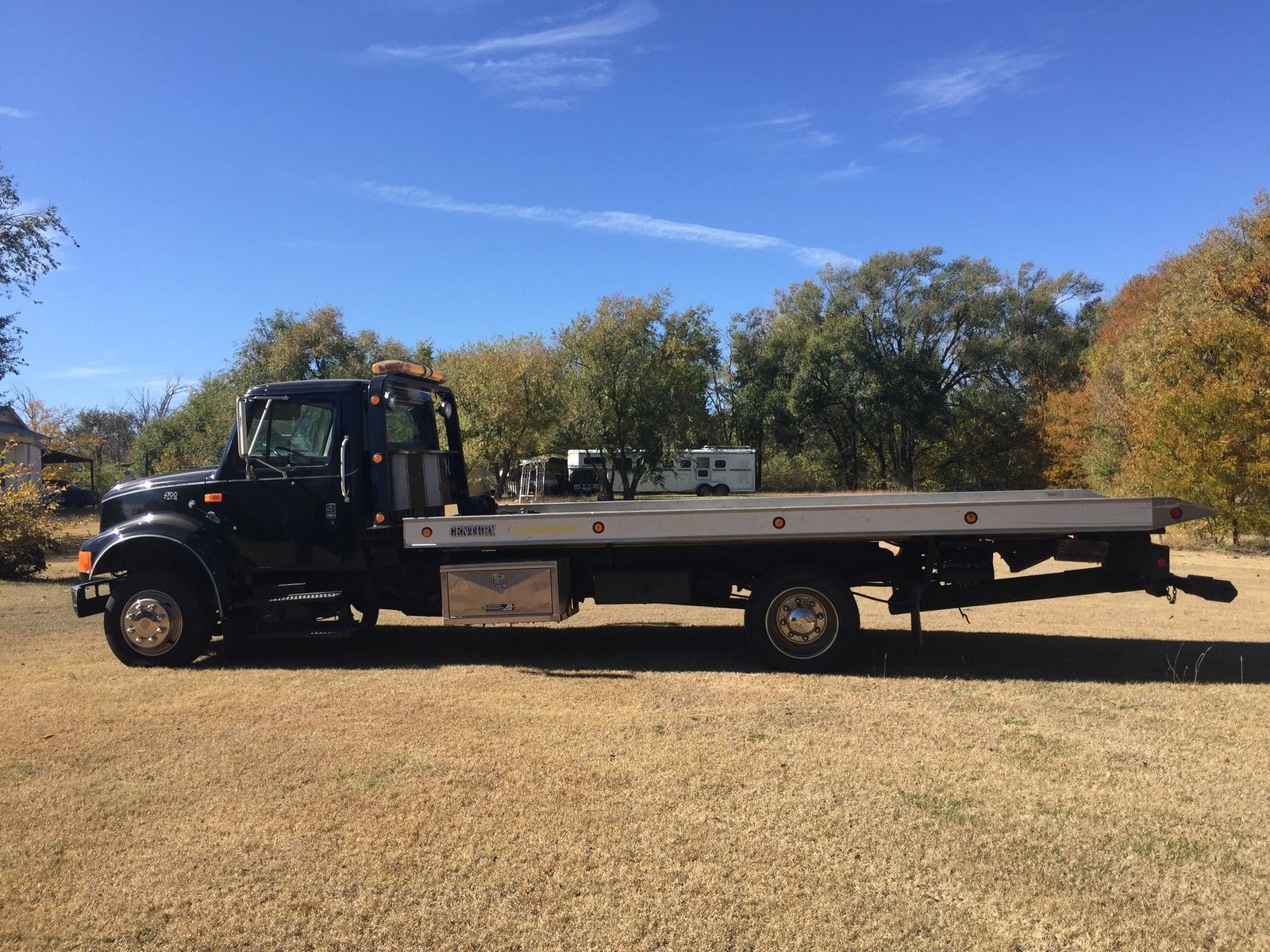 International 4700 flatbed Century 19'